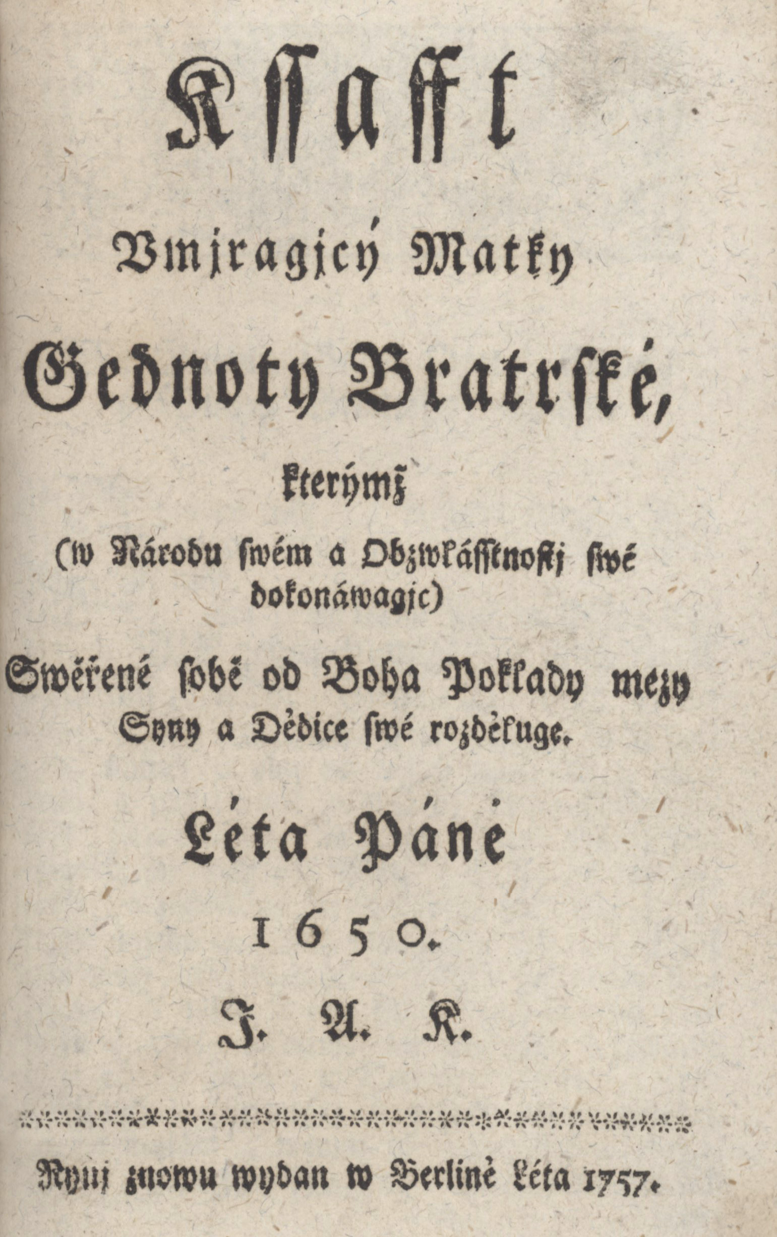 Kšaft umírající matky, Jednoty bratrské by John Amos Comenius, Cover of the Berlin edition of 1757.